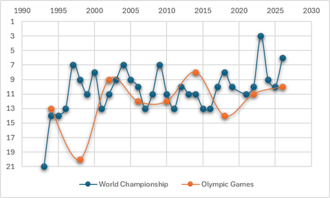 Graph shows Latvian results in IIHF World Championship up until 2018. Breaks in the graph represent the years Latvia didn't play in IIHF World Championship. Between 1940 and 1990 Latvia was not playing independently. These results are not shown and are skipped. Graph is made using LibreOffice Calc and publicly known information.